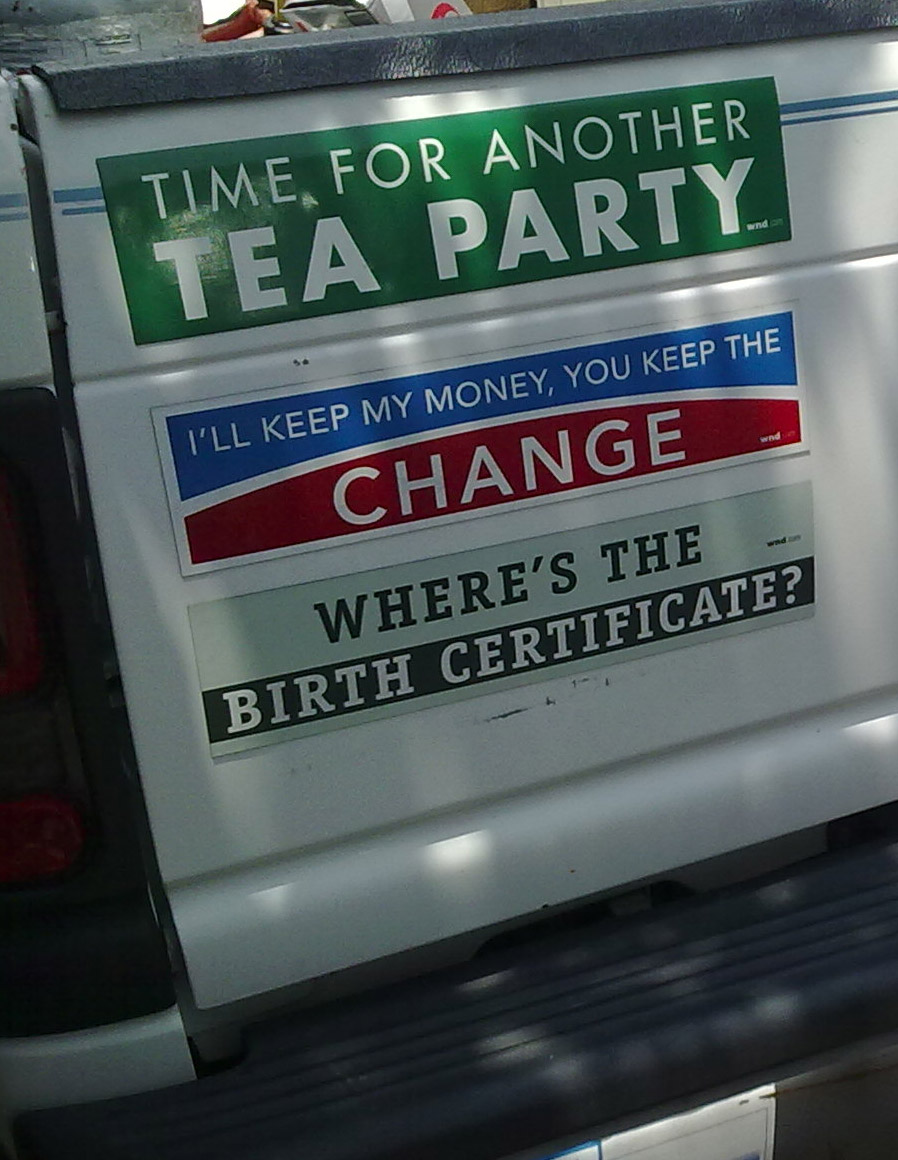 Bumper stickers on the tailgate of a Maryland pickup truck about Barack Obama's birth certificate and other issues (cropped from original image showing entire rear of truck, which identifies it with the painted logo of a Beltsville, Maryland company). Additional bumper stickers from the uncropped photo, not visible here, are "Throw the bums out!", "I want YOU to speak English," "Drill for American oil NOW!", "Bush Cheney 04," and "Work Harder - Millions on welfare depend on you".